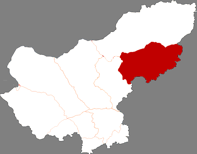 Locator map of West Ujimqin Banner in Xilingol League, Inner Mongolia, China